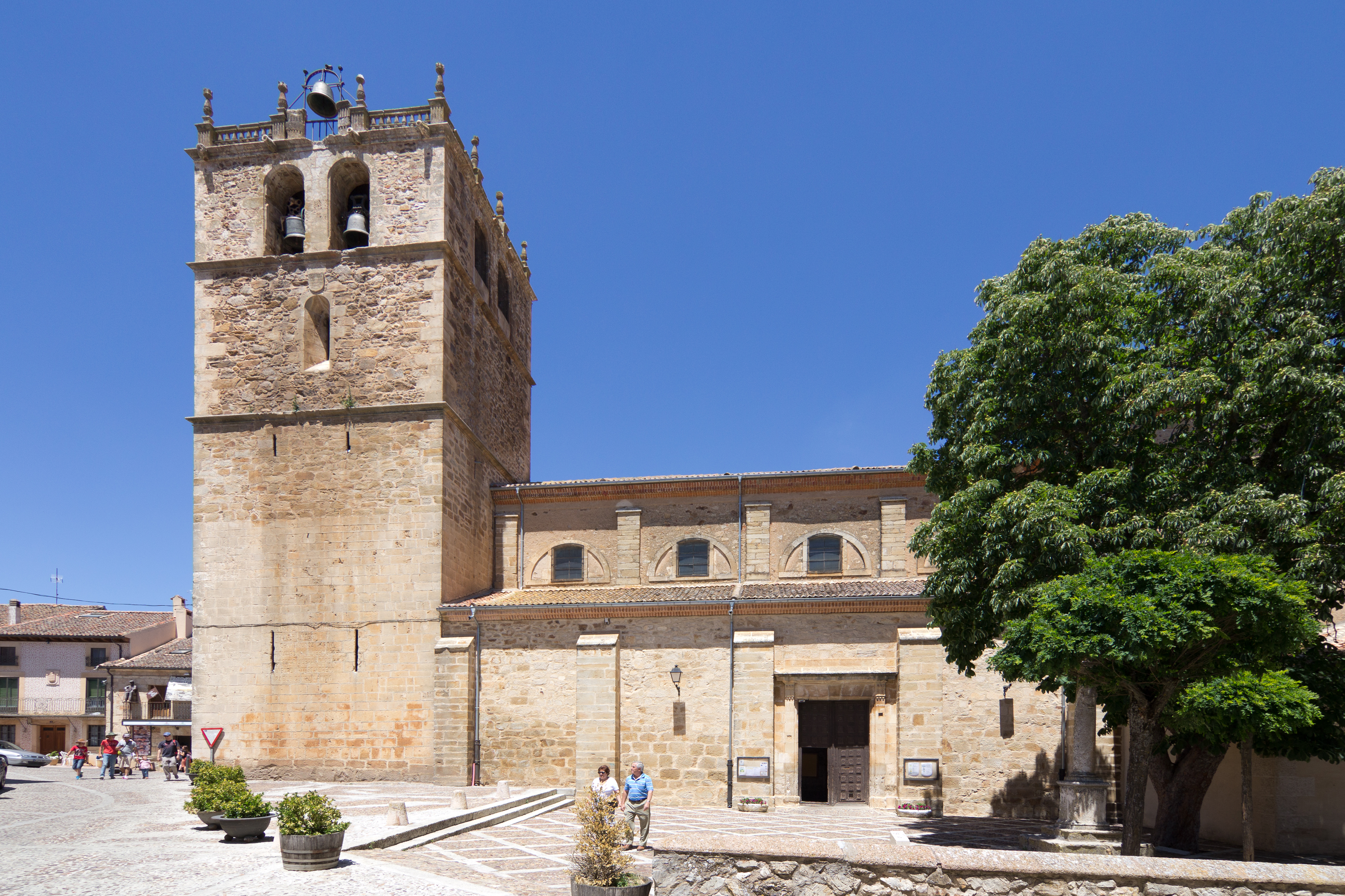 Church of Our Lady of the Cloak, Riaza, Segovia, Castile and León, Spain.